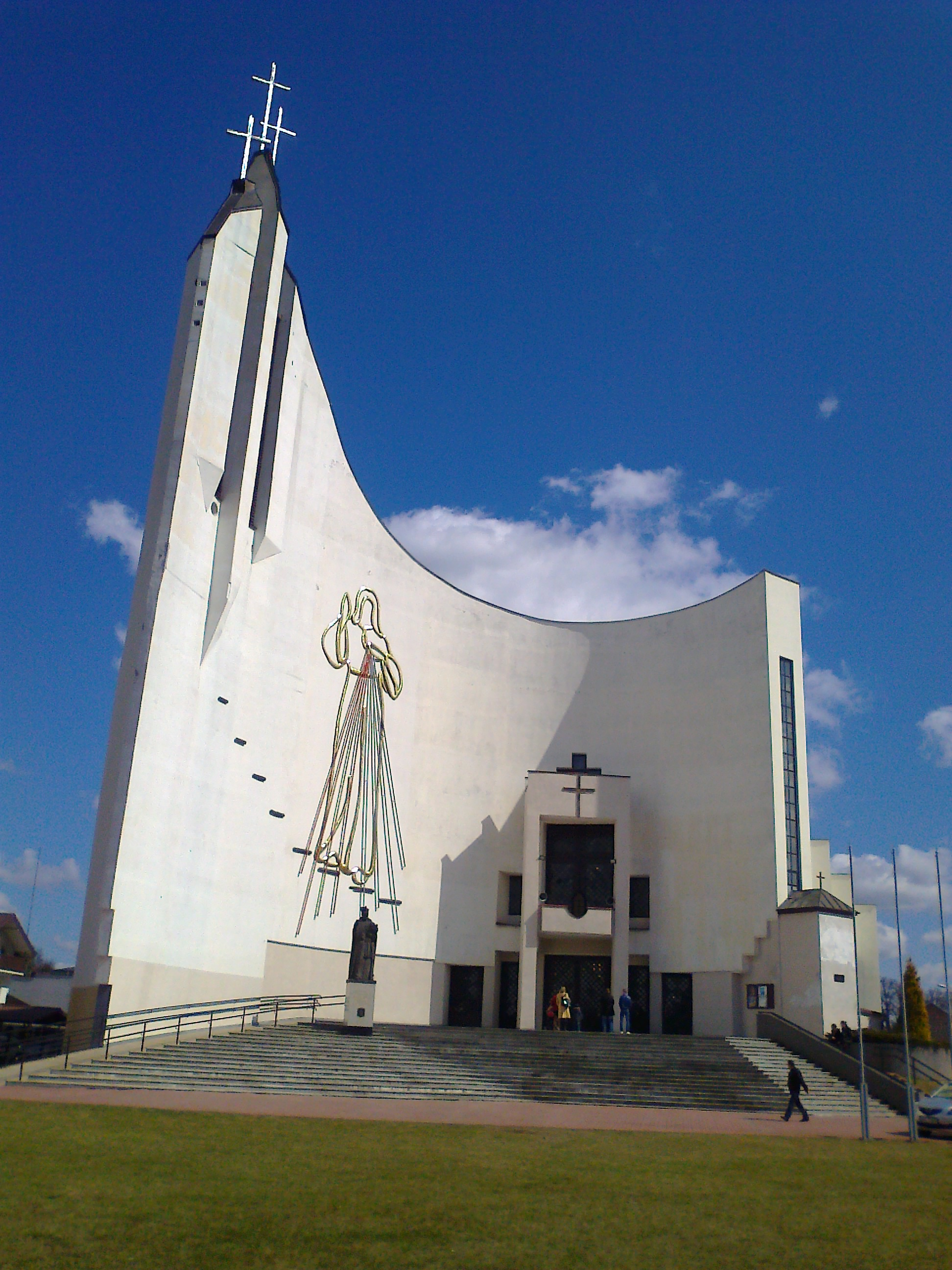 Divine Mercy church in Ząbki, Poland